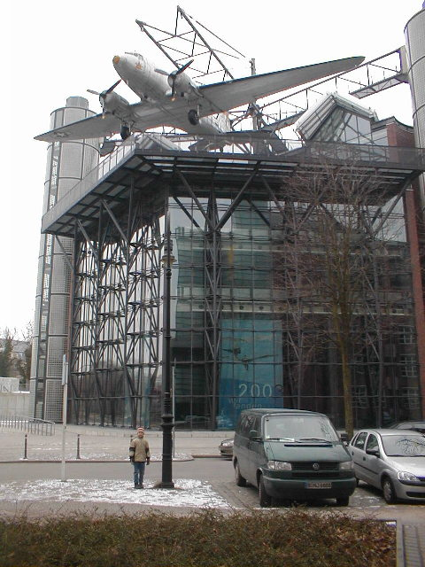 The new building of the German Technic Museum